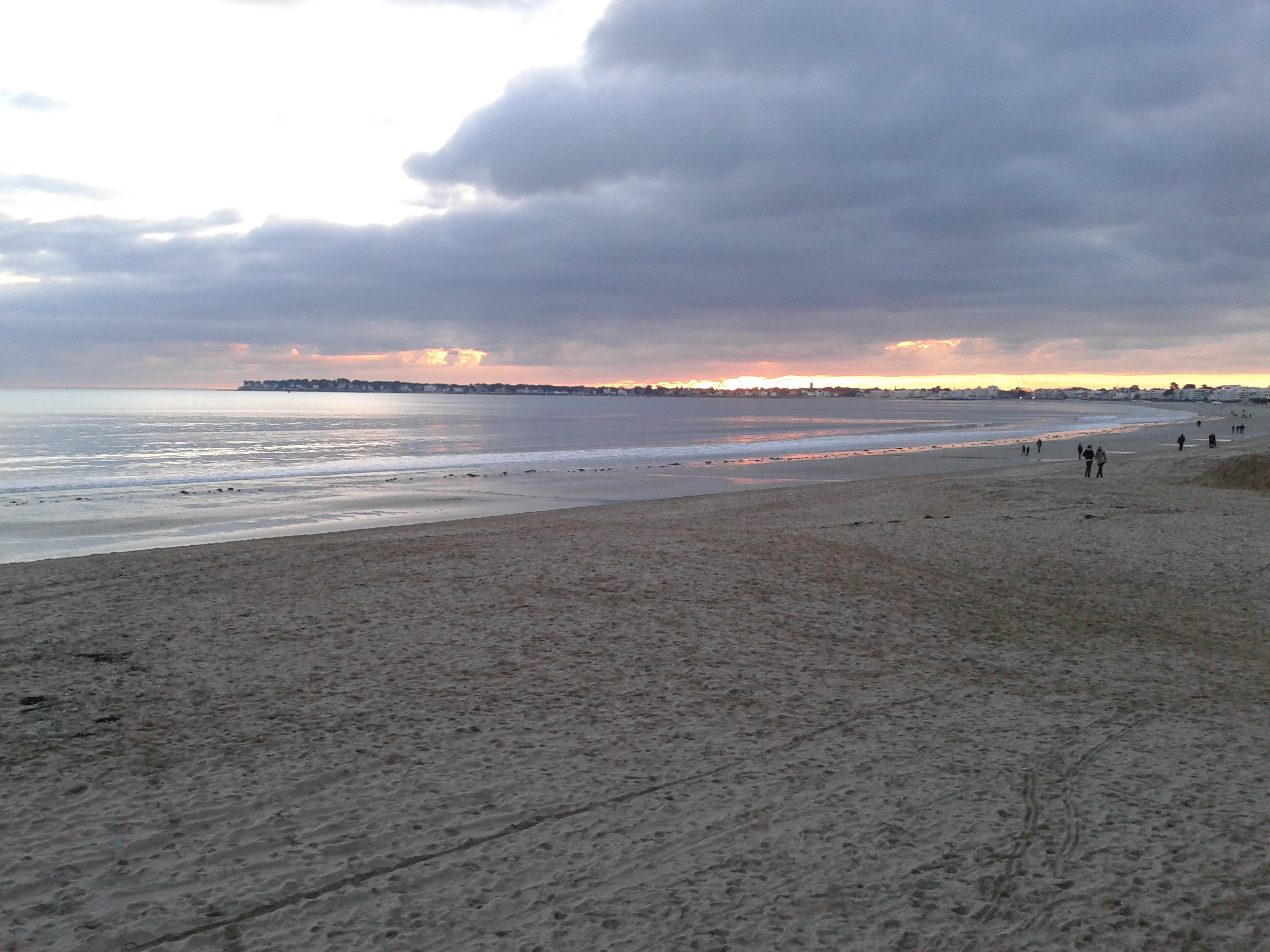 The beach of La Baule (France) by night